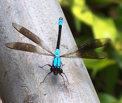 Tropical Rockmaster, Crystal Cascades via Cairns, Qld, Australia